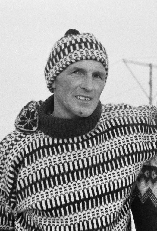 Jan Uitham